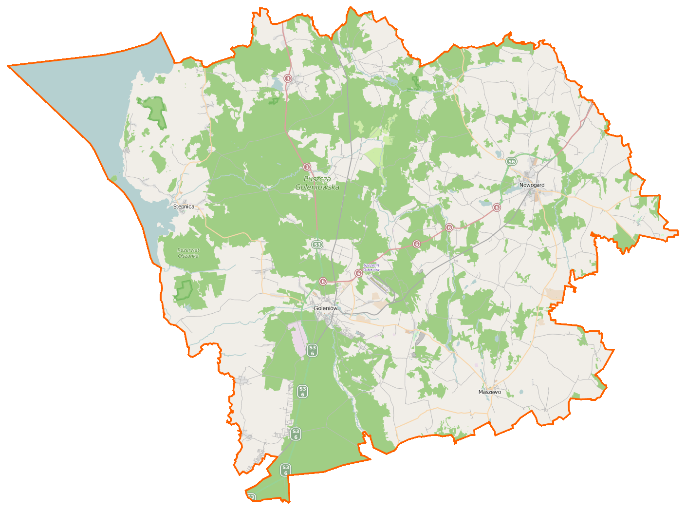 Map of Powiat goleniowski, Poland This map of Powiat goleniowski was created from OpenStreetMap project data, collected by the community. This map may be incomplete, and may contain errors. Don't rely solely on it for navigation.